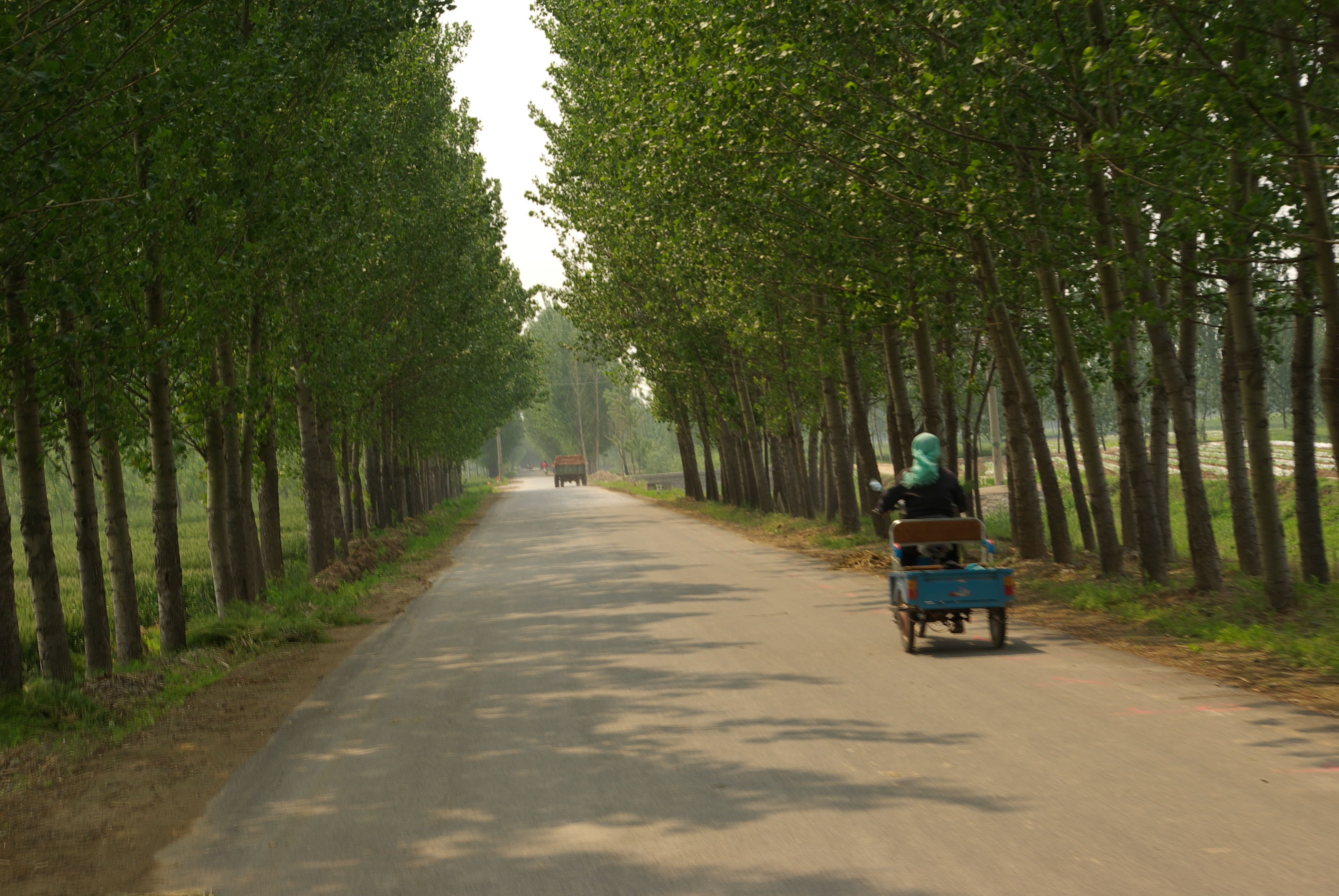 The scene of the farmland and lane at Gaoqing County, Eastern China.